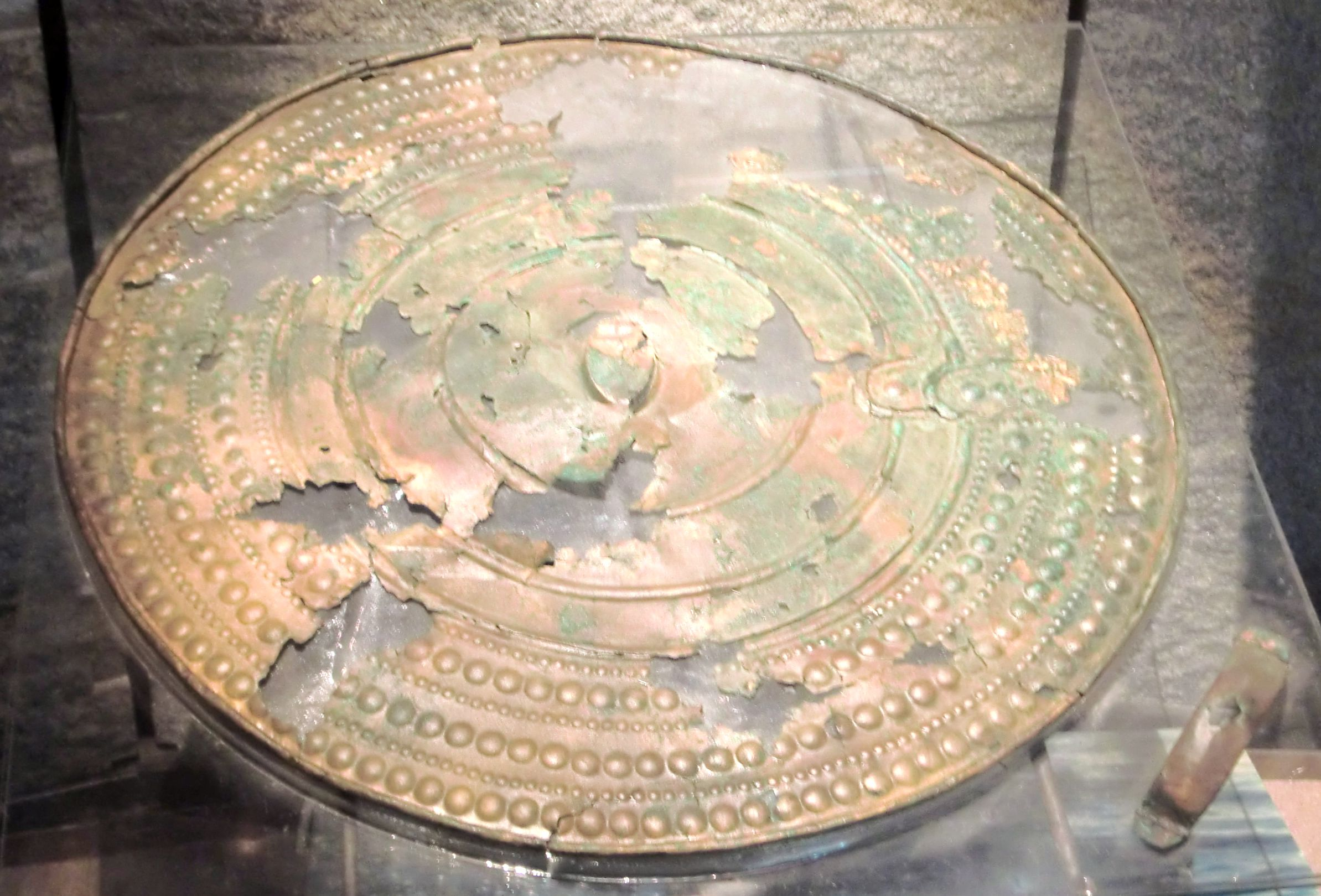 One of the more than twelve Herzsprung-type bronze votive shields, found together at Fröslunda farm near Lidköping, Västergötland, Sweden. The shields are on display at Västergötlands Museum, Skara.